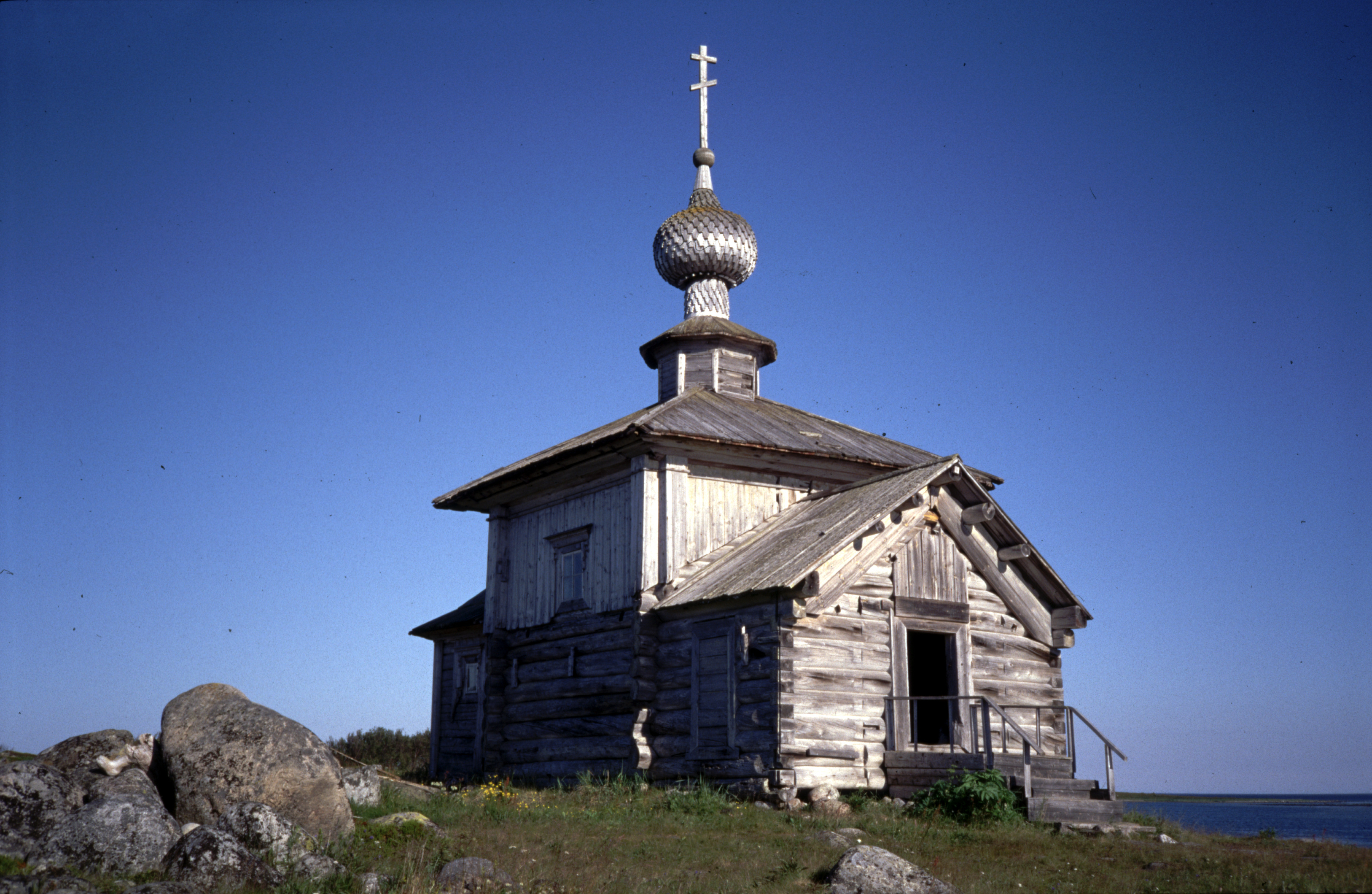 Zayatsky island, Solovetsky archipelago, Russia